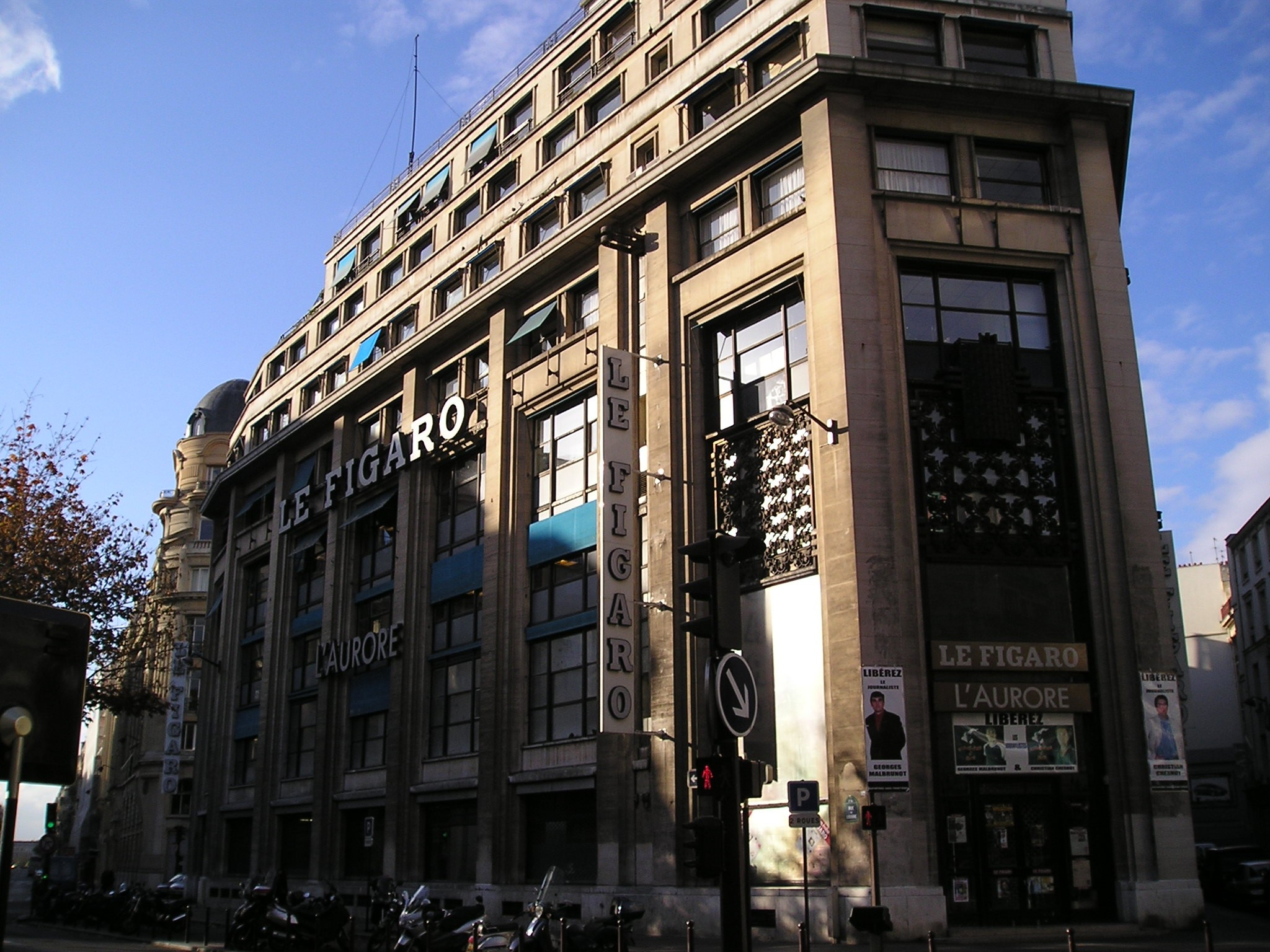 Former headquarters of French newspaper Le Figaro - 37, rue du Louvre in the 2nd arrondissement of Paris